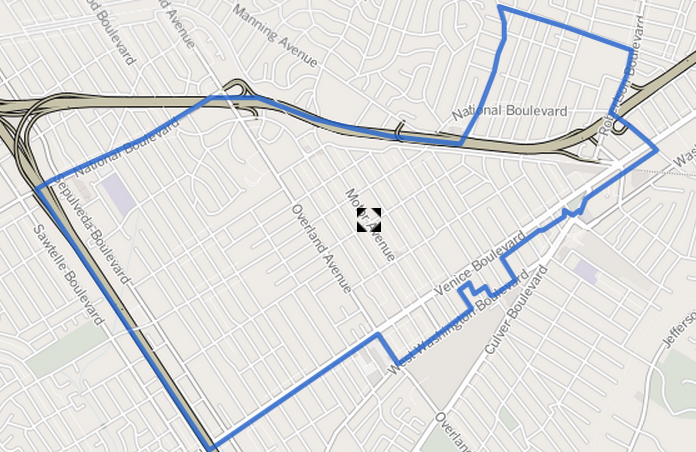 Map of the boundaries of the Palms neighborhood in Westside Los Angeles, California. As determined by the "Mapping L.A." project of the Los Angeles Times. Will be used at Palms, Los Angeles.